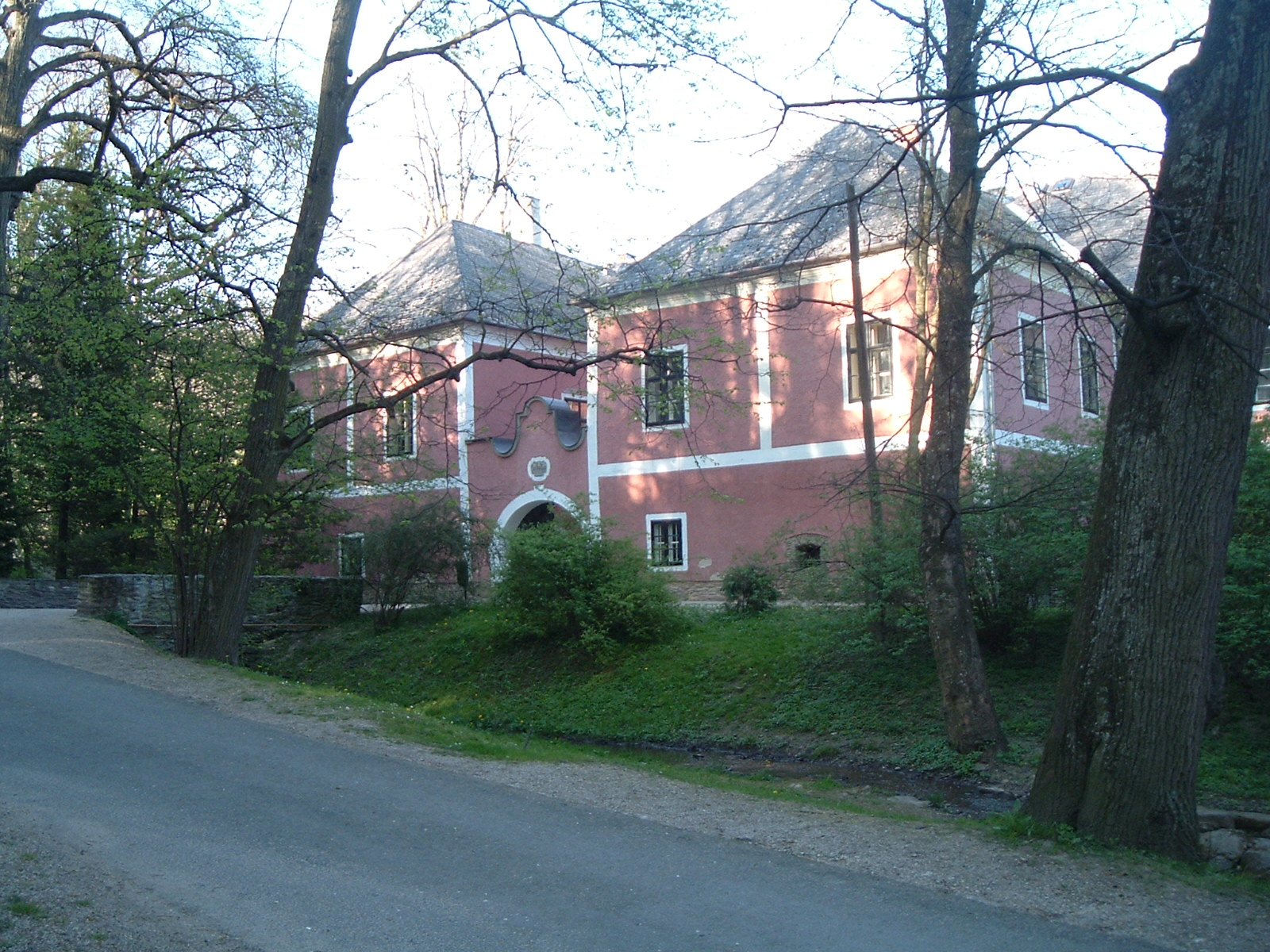 The Sibrik-castle in Bozsok, Hungary